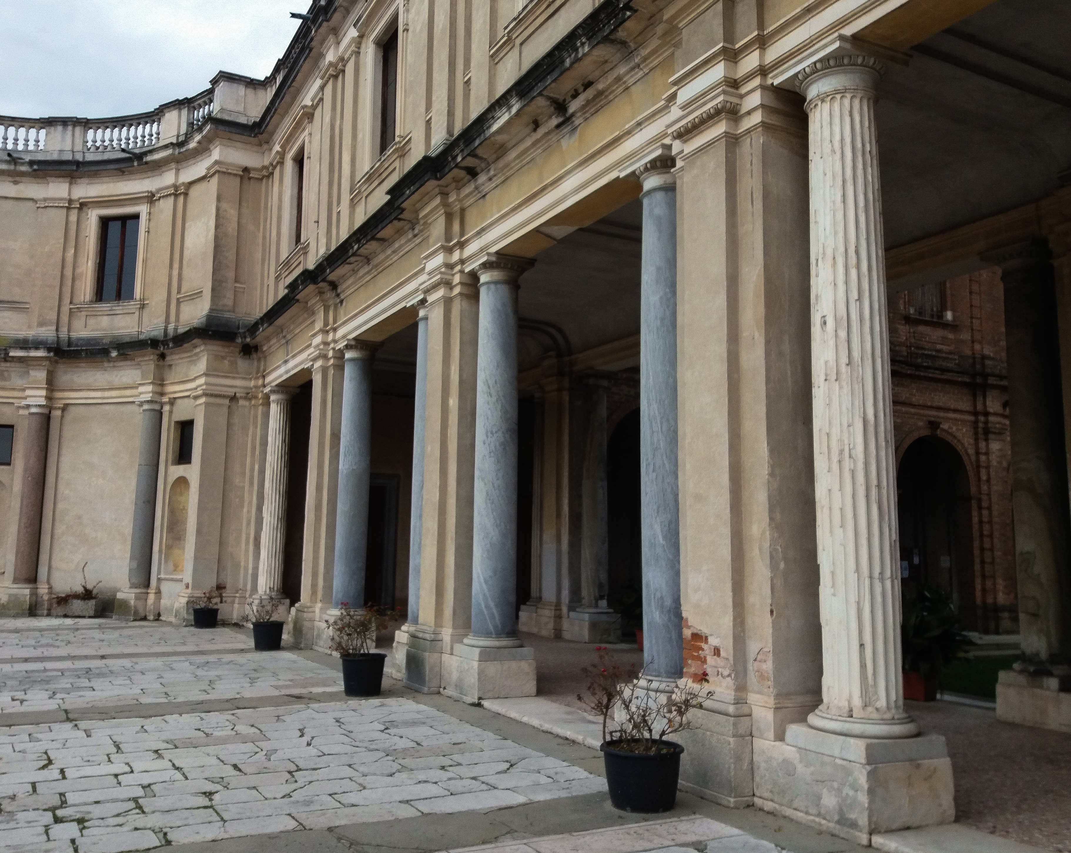 colonnato Villa Farsetti